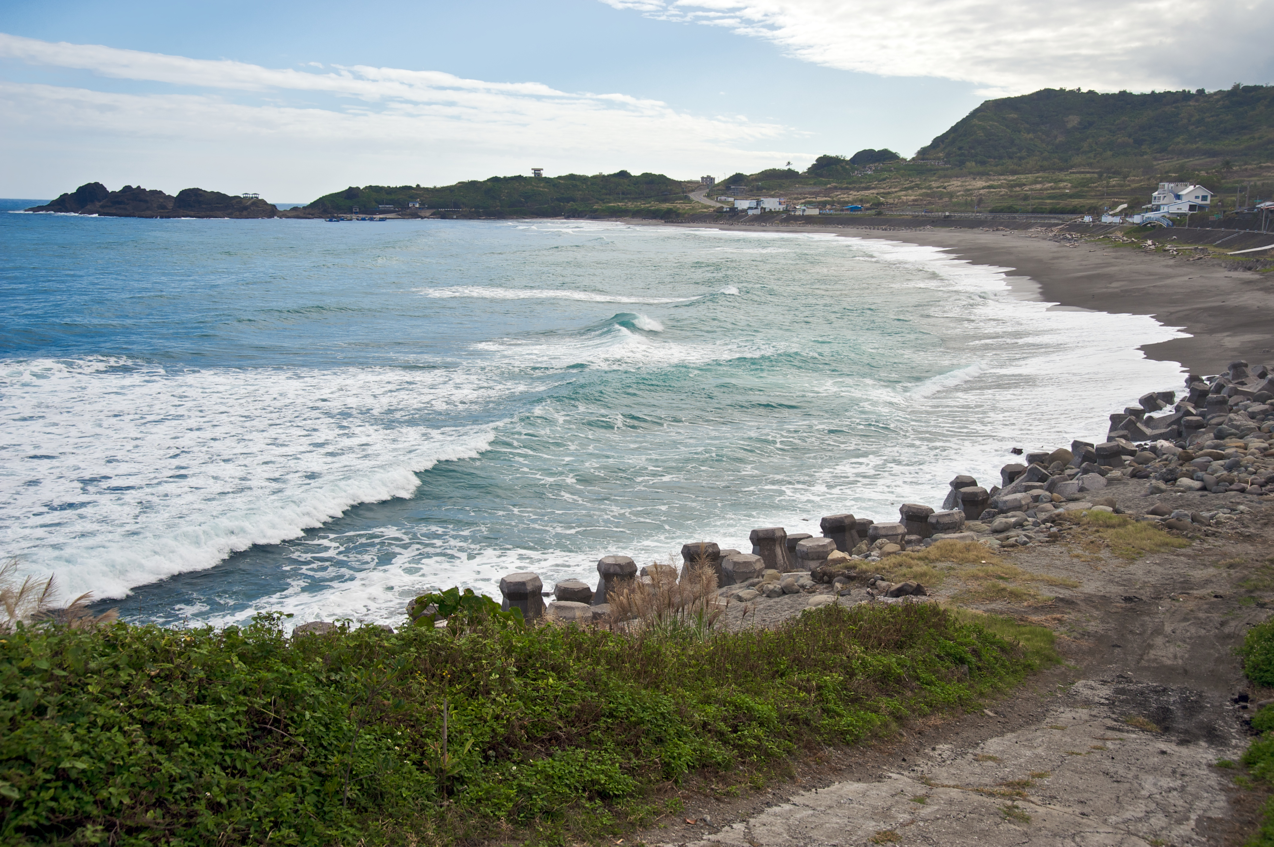 East coast of Taiwan